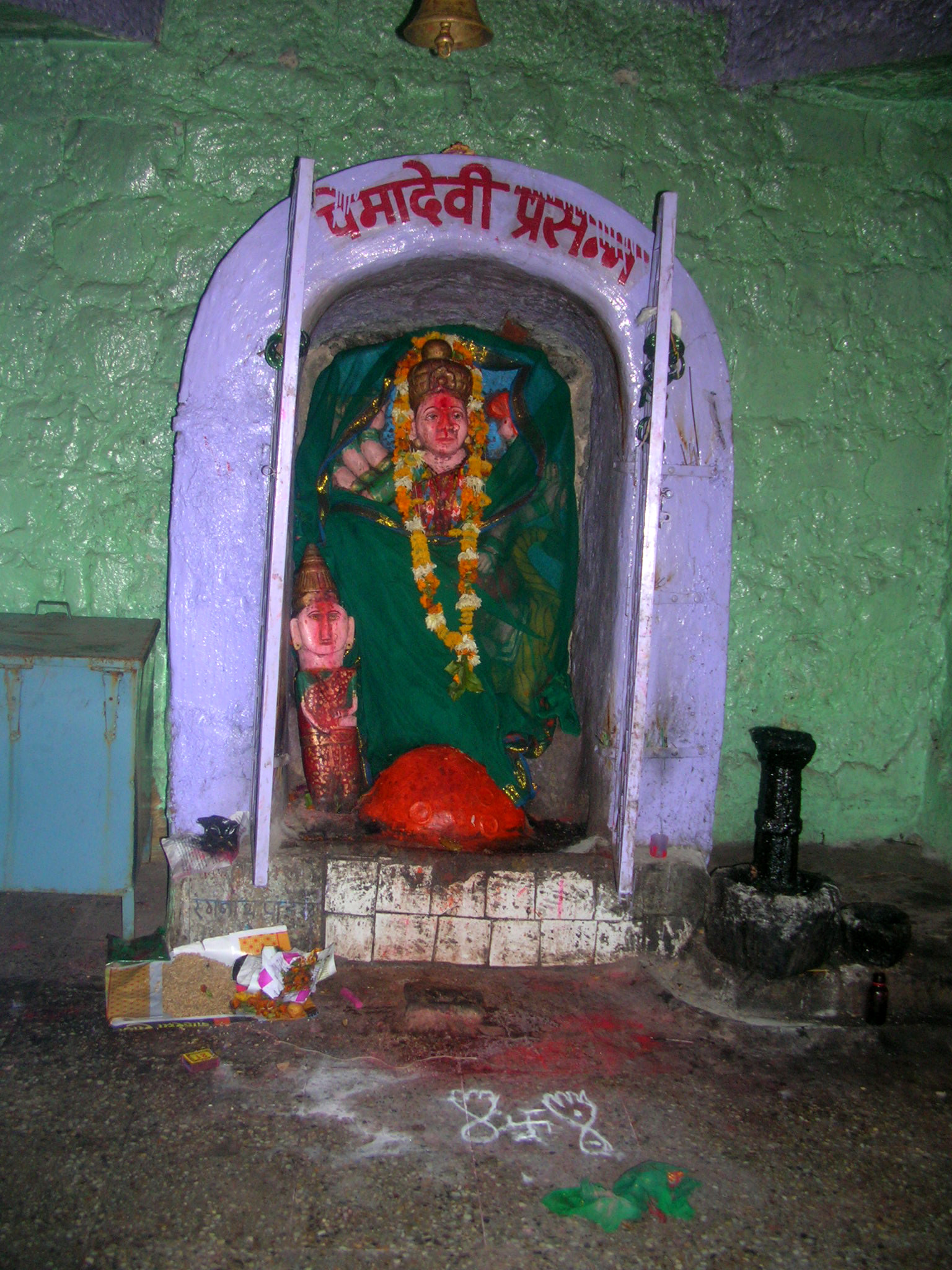 This is the photo on Pemdevi placed at Pemgiri fort. The name of the fort has created against the name this goddess.